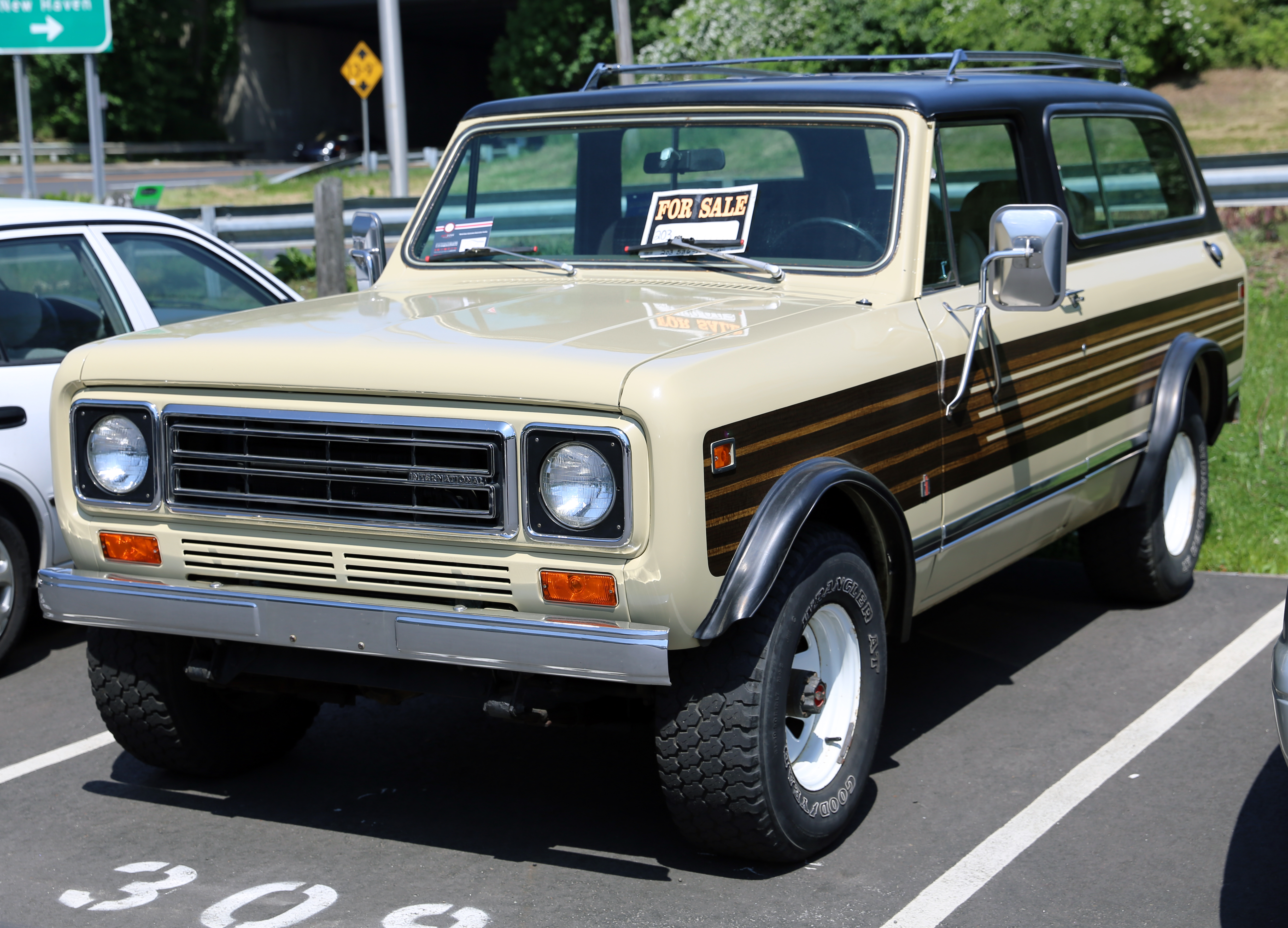 1976-1980 IH Scout II Traveller, with the third row of seats. In the parking lot of the 2013 Greenwich Concours d'Elegance...